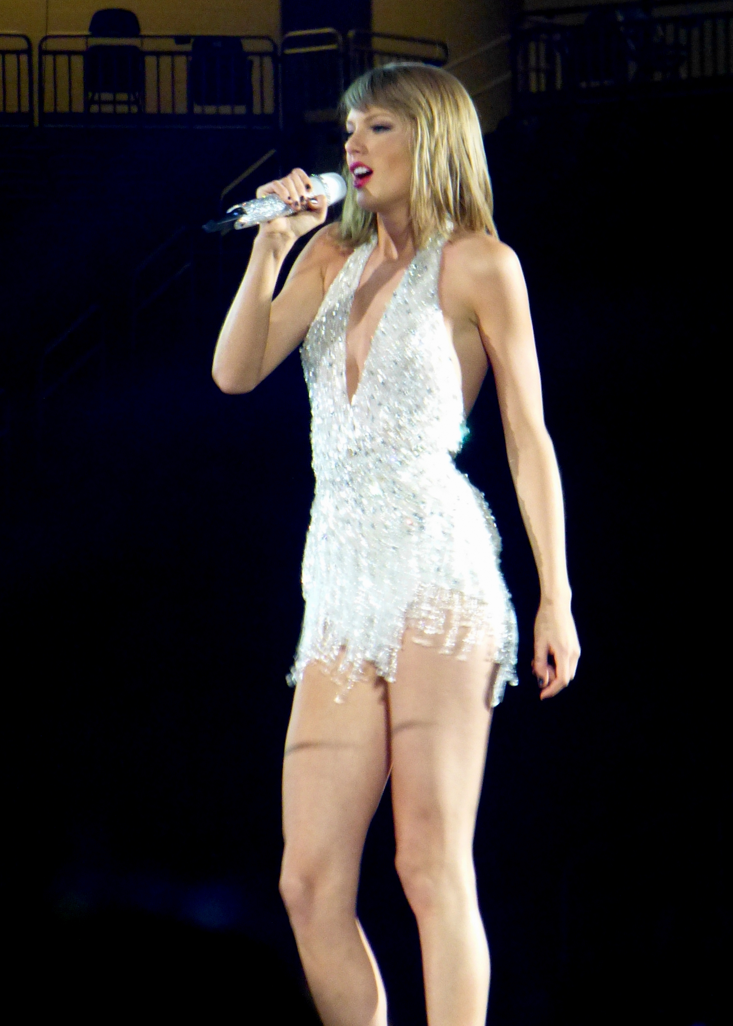 Taylor Swift 1989 Tour at Ford Field in Detroit, 5/30/15